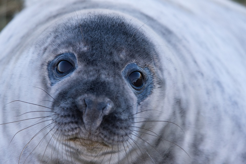 Grey seal with hydration eye rings